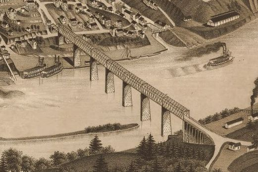 The old Gay Street Bridge, or "Saulpaw" bridge, as it appeared on an 1886 map of Knoxville, Tennessee, USA. This bridge was a wooden Howe truss bridge, built by G. W. Saulpaw in 1880. It was replaced by the current Gay Street Bridge in 1898. Cropped from map entitled, "Knoxville, Tennessee, County Seat of Knox County."